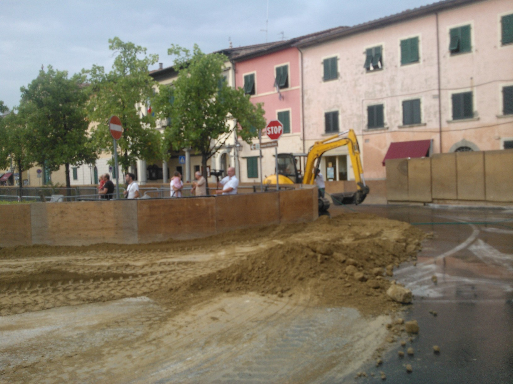 Bientina, Vittorio Emanuele II square